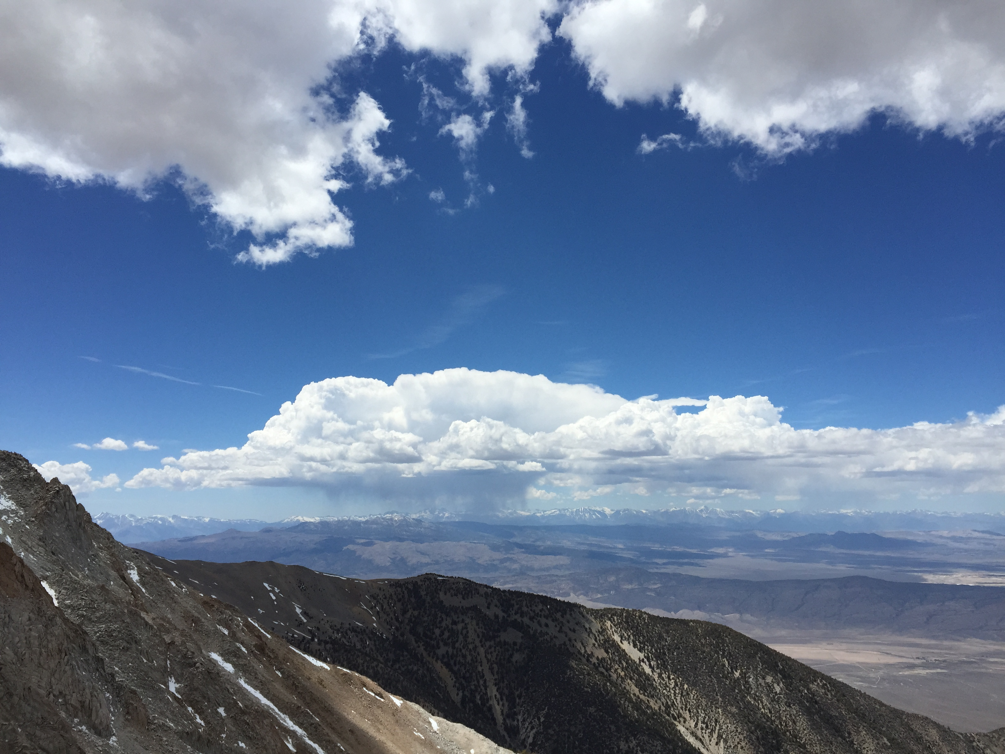 View west toward developing thunderstorms above the Sierra Nevada mountains from about 12080 feet on the ridge northeast of Boundary Peak, Nevada